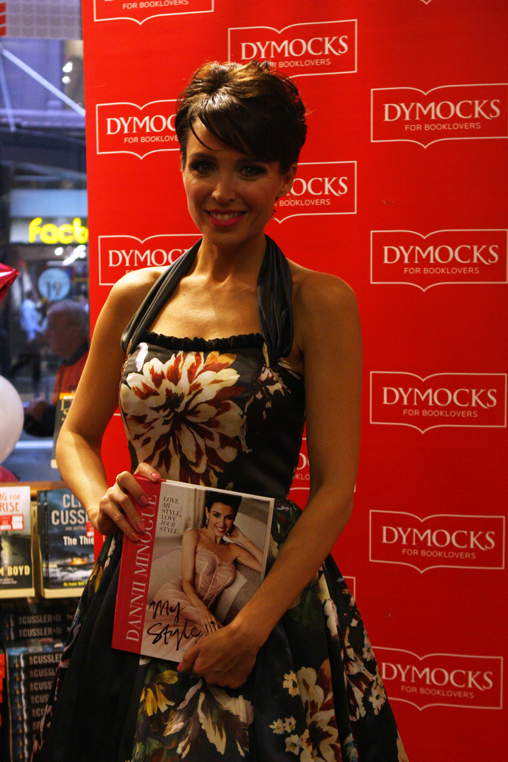 Dannii Minogue launches book Dannii: My Style at Dymocks, Sydney, Australia